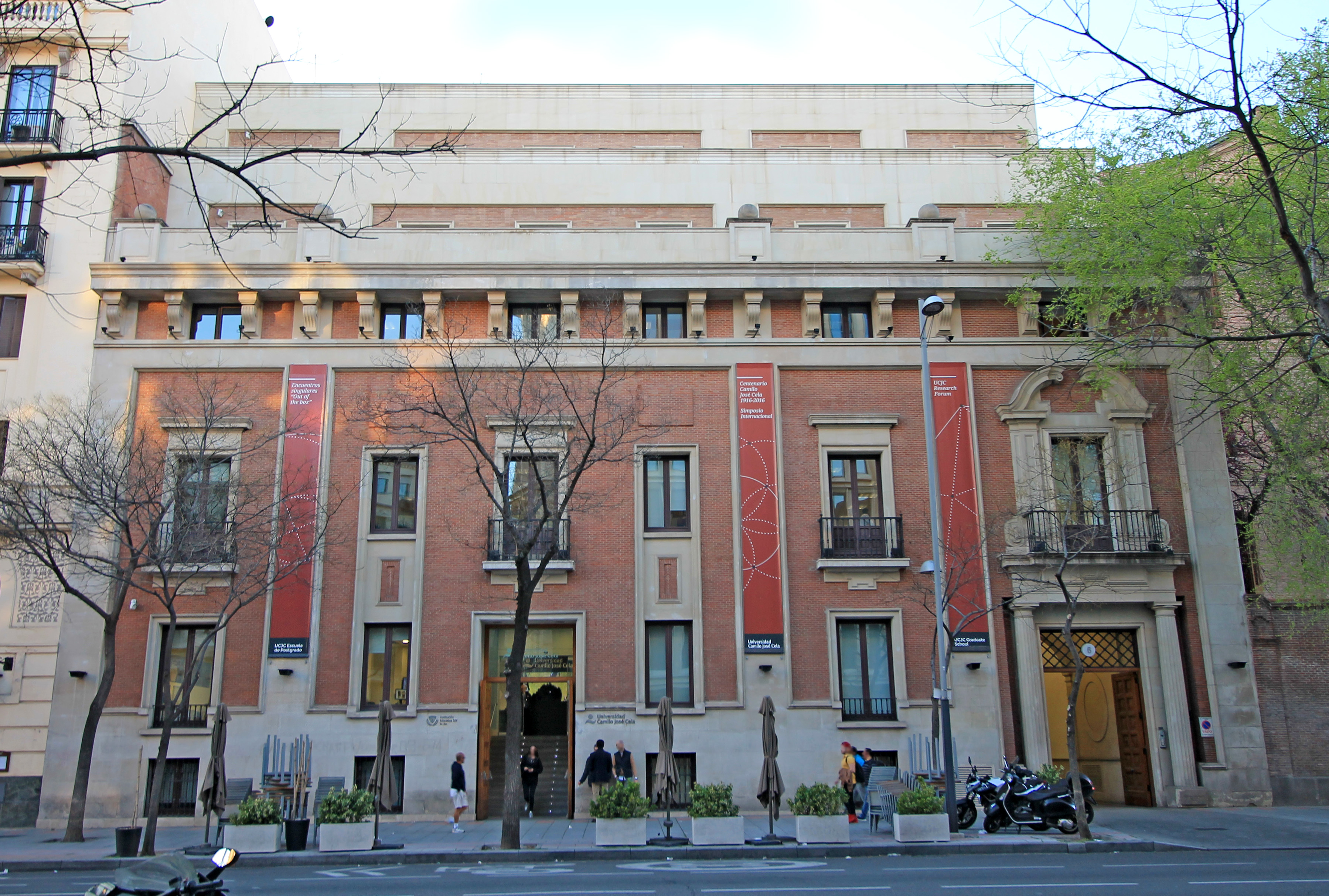 Façade of the building of Camilo José Cela University at 5th Calle de Almagro in Madrid (Spain).